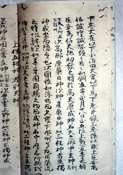 The Records of Ancient Matters (古事記, Kojiki), Shinpukuji manuscript